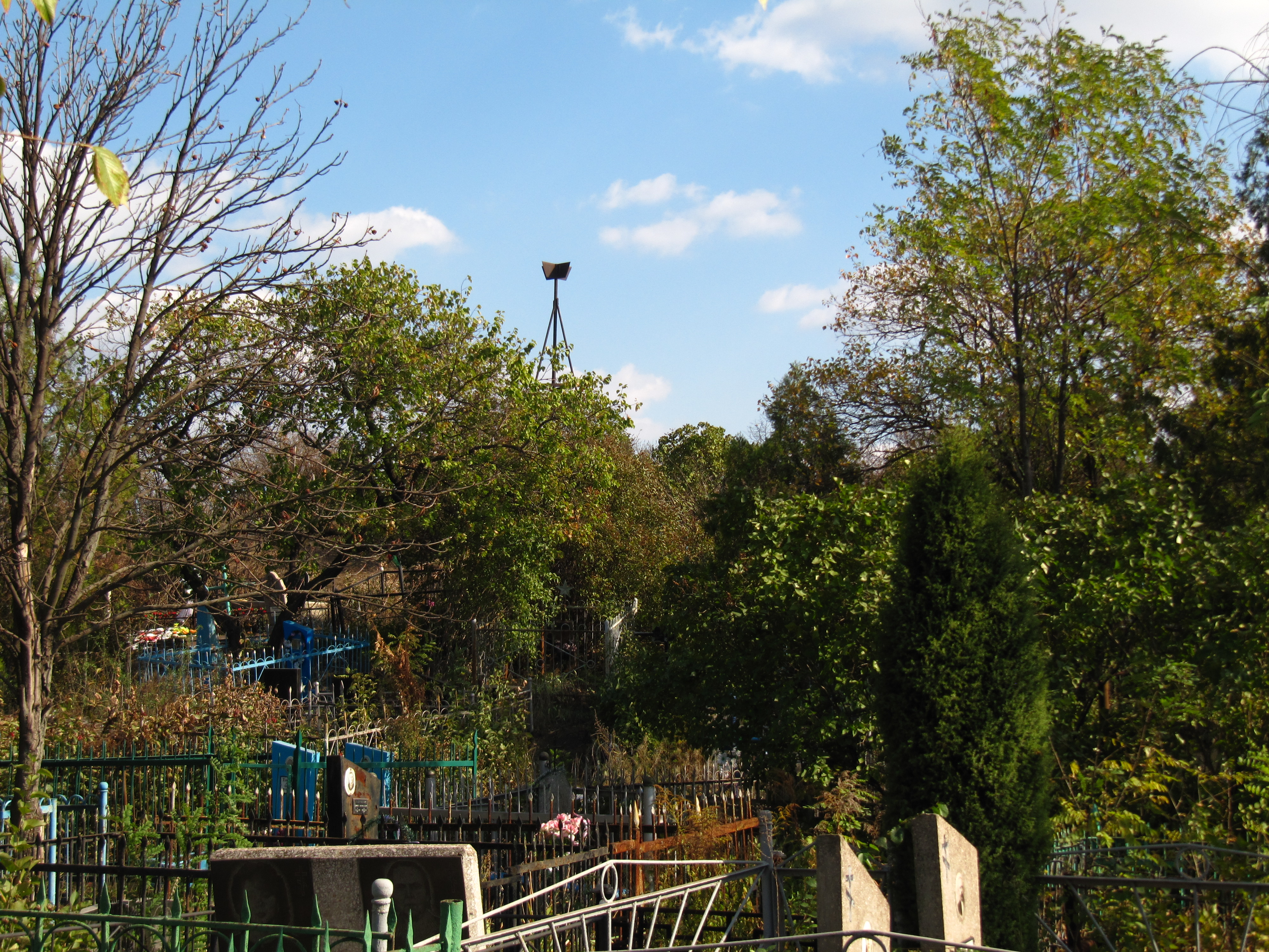 Scythian burial mound called "Mohyla Vechirnya" ("Tomb Evening"), Krivoy Rog, Ukraine